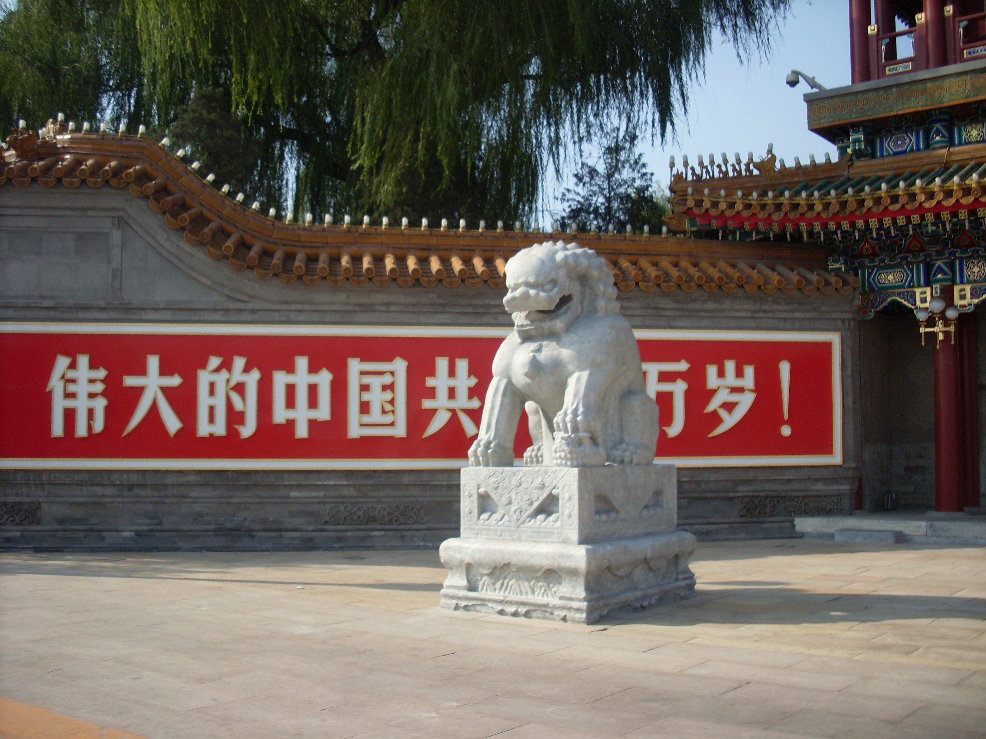 "Long live the great Communist Party of China", and Chinese stone lion — in Xinhuamen, Beijing 中文（中国大陆）: 新华门左标语“伟大的中国共产党万岁”